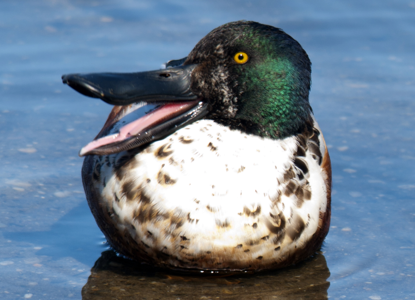 northern shovler quack